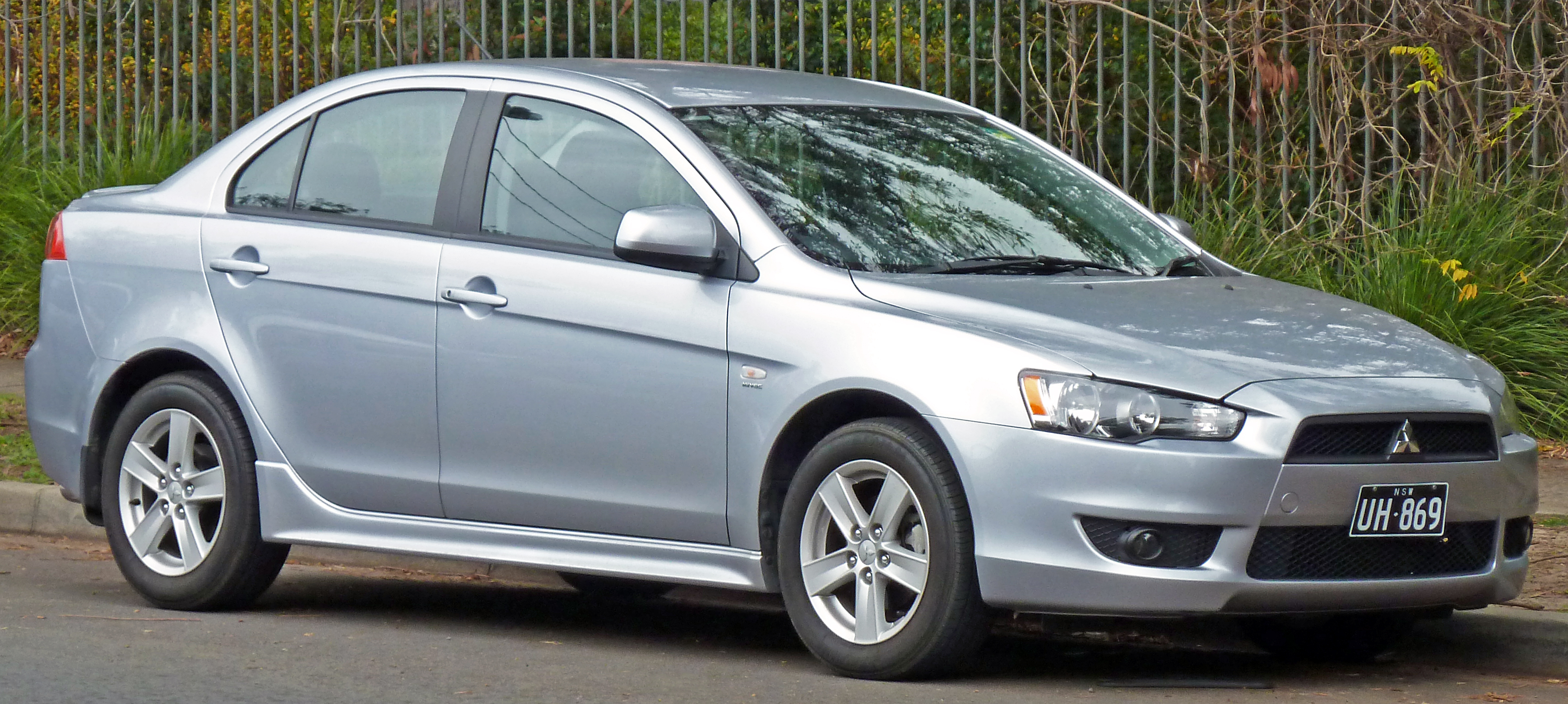 2007 Mitsubishi Lancer (CJ) VR sedan. Photographed in Gymea, New South Wales, Australia.